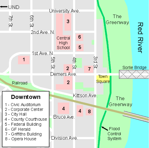 This is a simplified map of downtown Grand Forks, North Dakota.